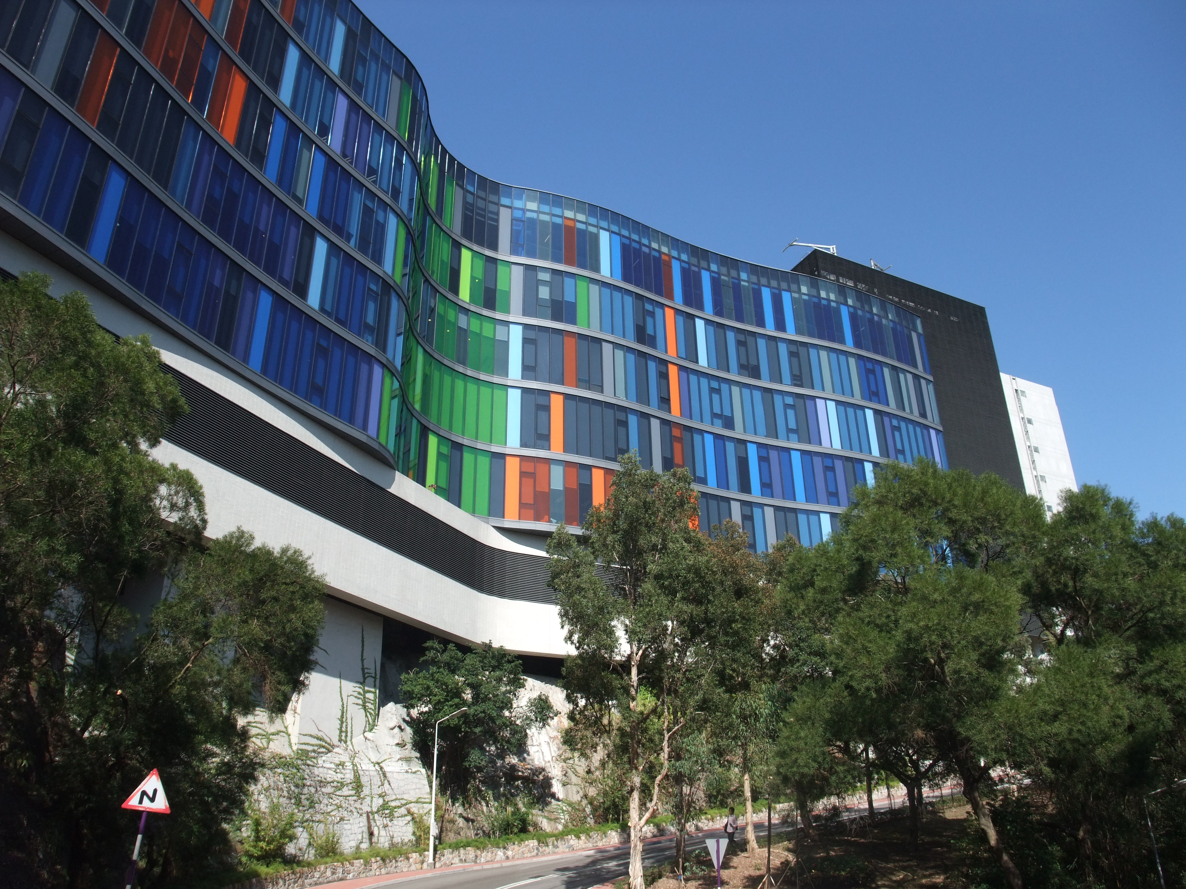 Photo of Centralized Science Laboratories Building